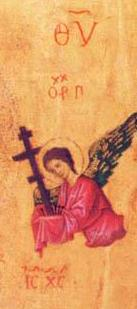 Archangel Gabriel, detail from Our Lady of Perpetual Help, Byzantine icon said to be 13th or 14th century